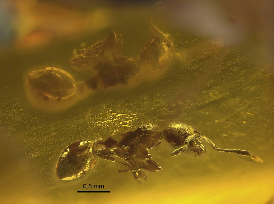 Profile view of the Eocenomyrma breviscapa holotype worker. Priabonian, Eocene; Rovno amber, Klesov, Ukraine Schmalhausen Institute of Zoology, National Academy of Sciences of Ukraine, Kiev SIZK K-5518 Antweb specimen CASENT0917549